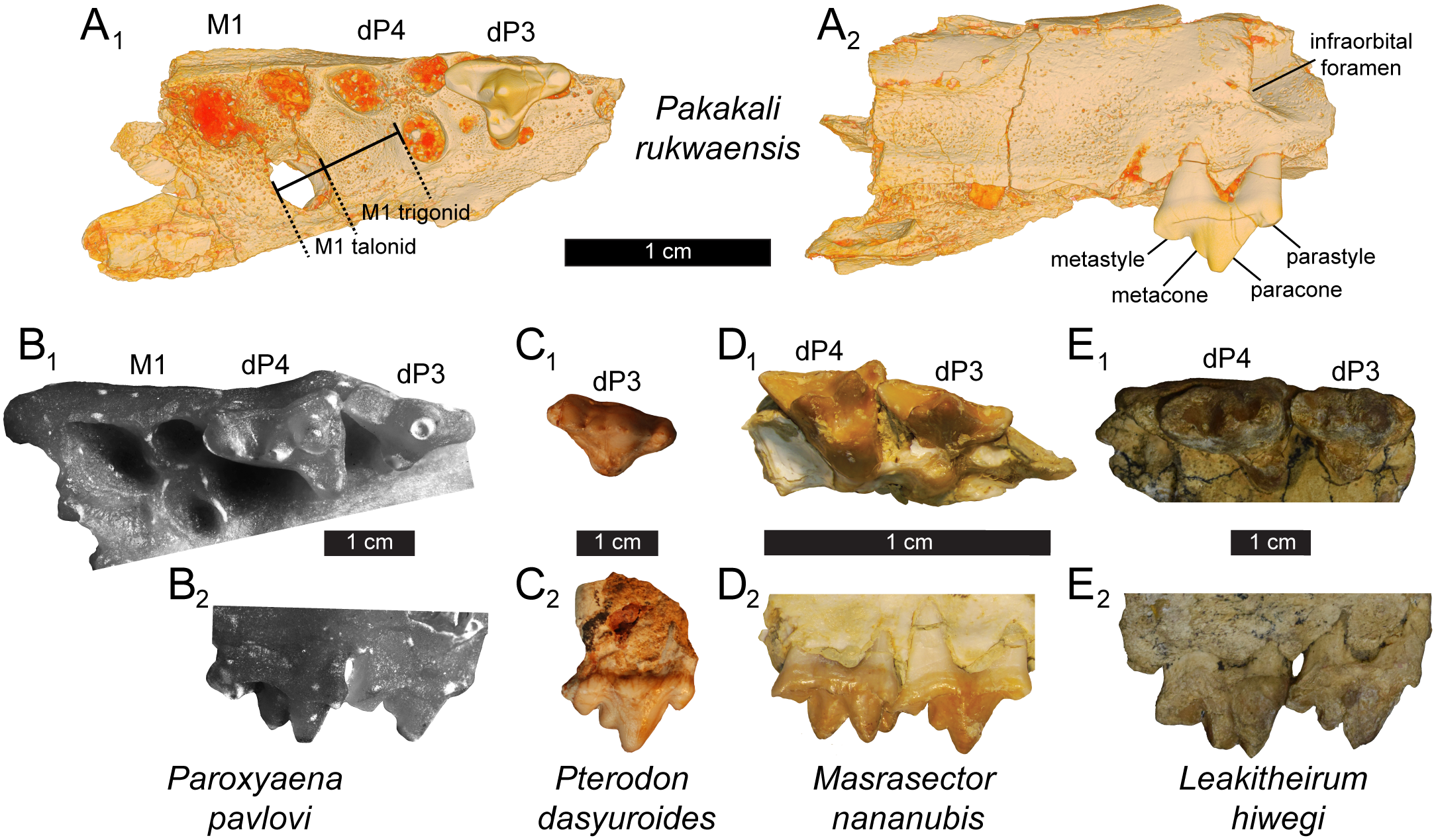 Pakakali, dP3 of Pakakali compared with dP3 of other hyainailouroids; A: maxilla of Pakakali (digital model) with dP3 (RRBP 09088); B: Paroxyaena pavlovi (GGM no. Ca-300); C: Pterodon dasyuroides (BSPG 1879 XV 642); D: Masrasector nananubis (DPC 20882); E: Leakitherium hiwegi (KNM-RU 2949); subscript 1: occlusal view; subscript 2: buccal (lateral) view; measurements used to estimate the size of M1